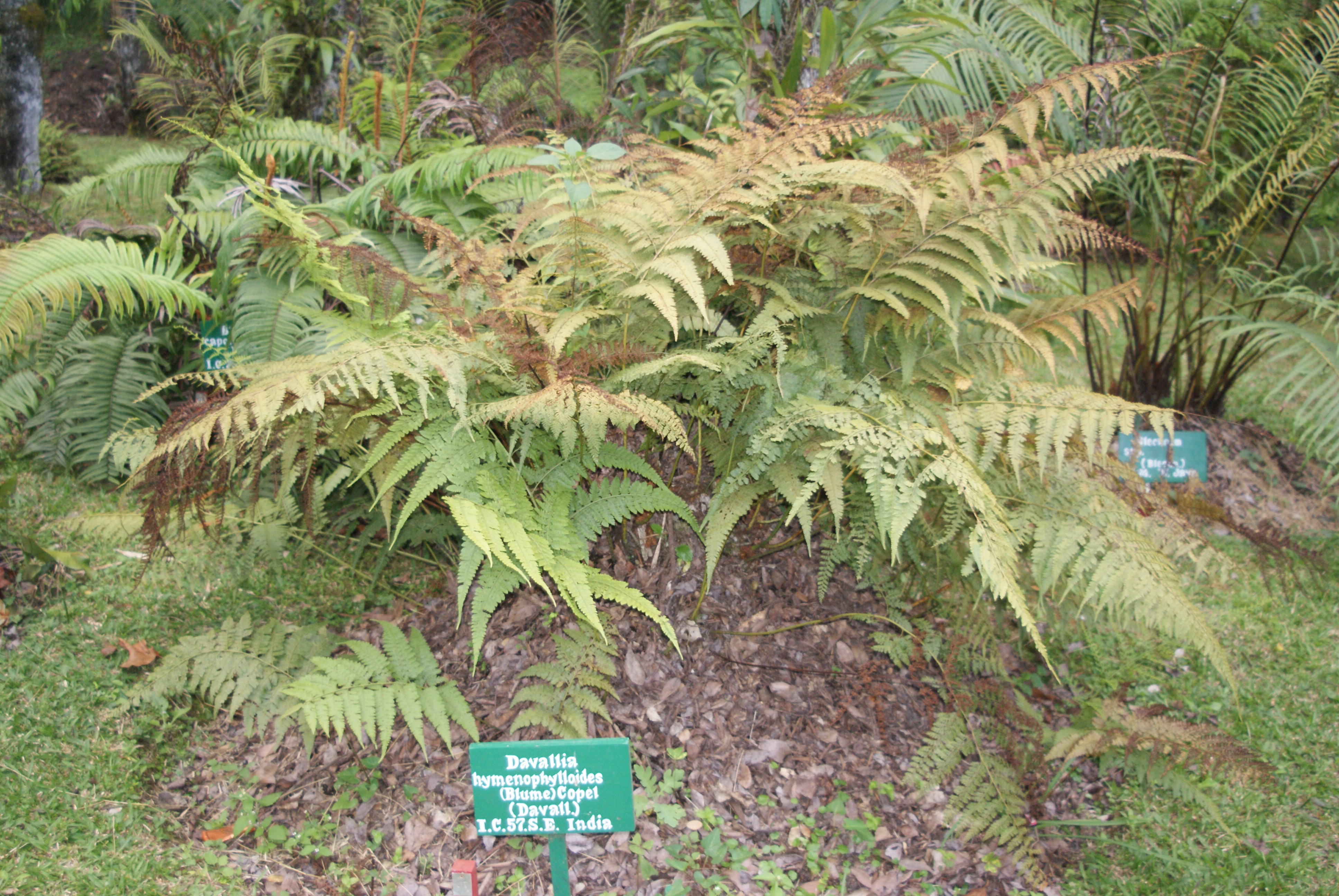 Davallia hymenophylloides (Blume) Copel (Davall.)